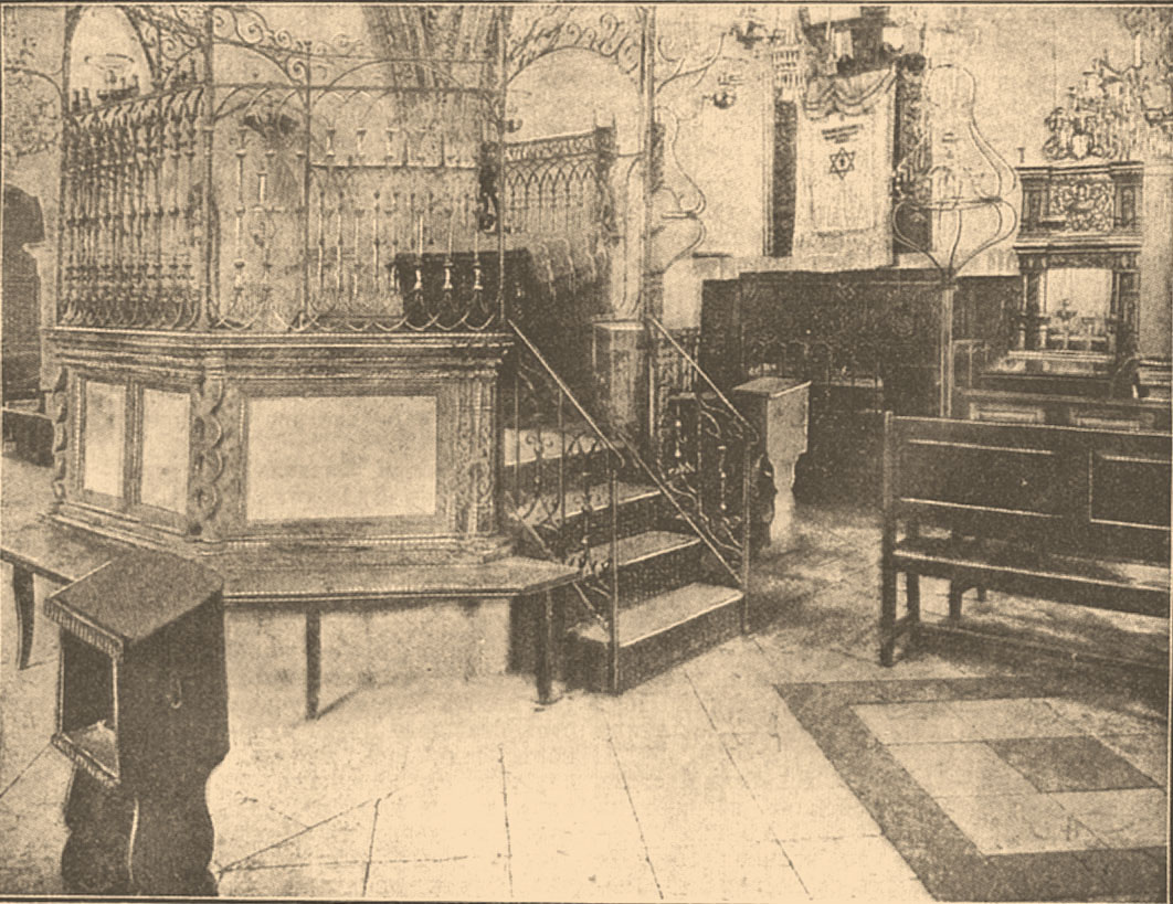 Illustration from Brockhaus and Efron Jewish Encyclopedia (1906—1913)